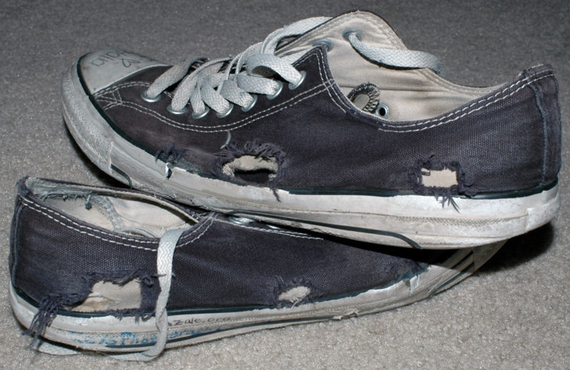 adapted from Image:Emo_beat_up_chuck_taylor_all_star_converse.jpg to exclude advertising. description: A photo of Chuck Taylor All Star low-top Converse shoes Original Author: User:Steevven1 Attribution: Steven H. Keys and Changes from original: photoshopped out self-promotional URL written on shoe